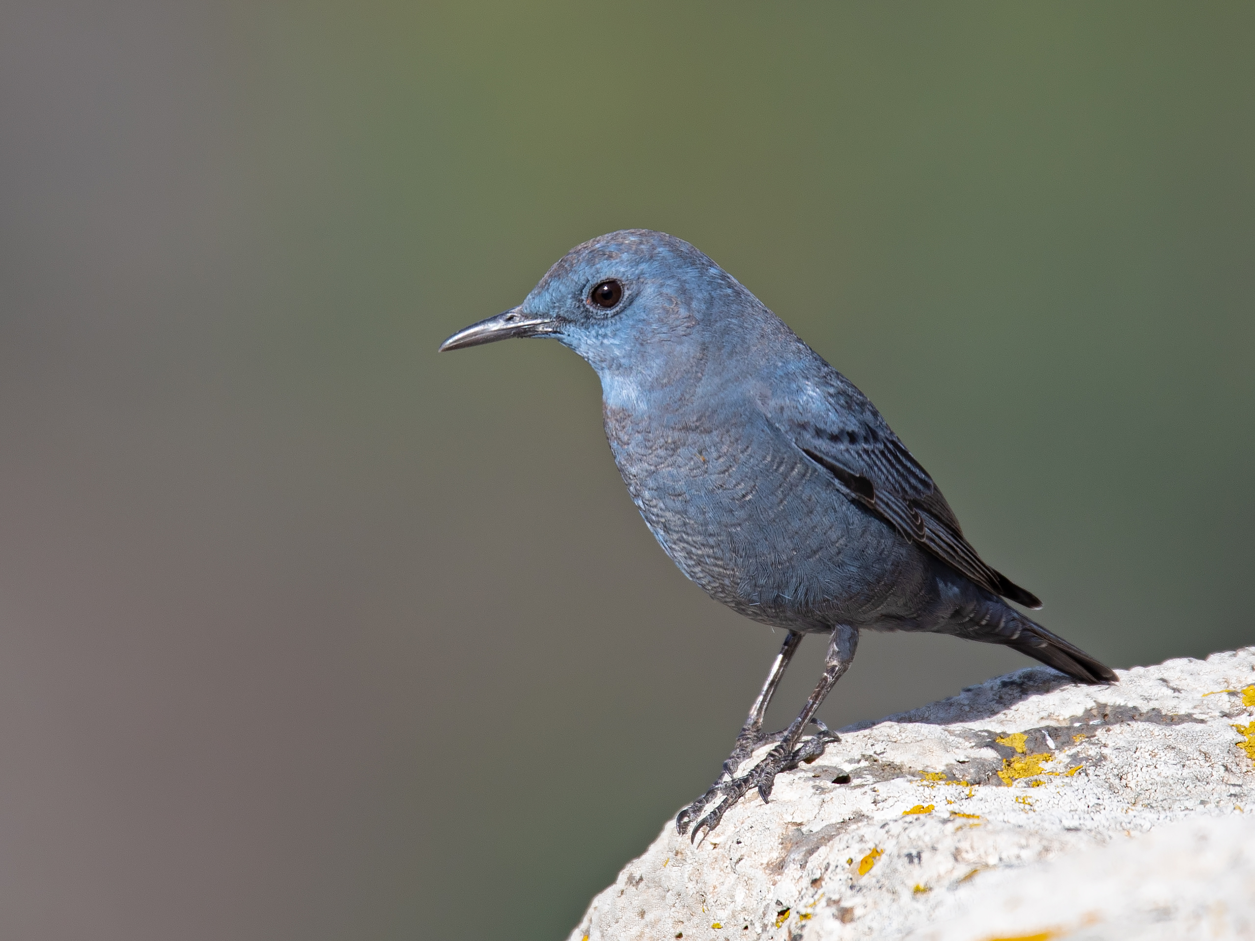 Blue rock thrush, male. Photographed in Israel at Gamla Nature Reserve